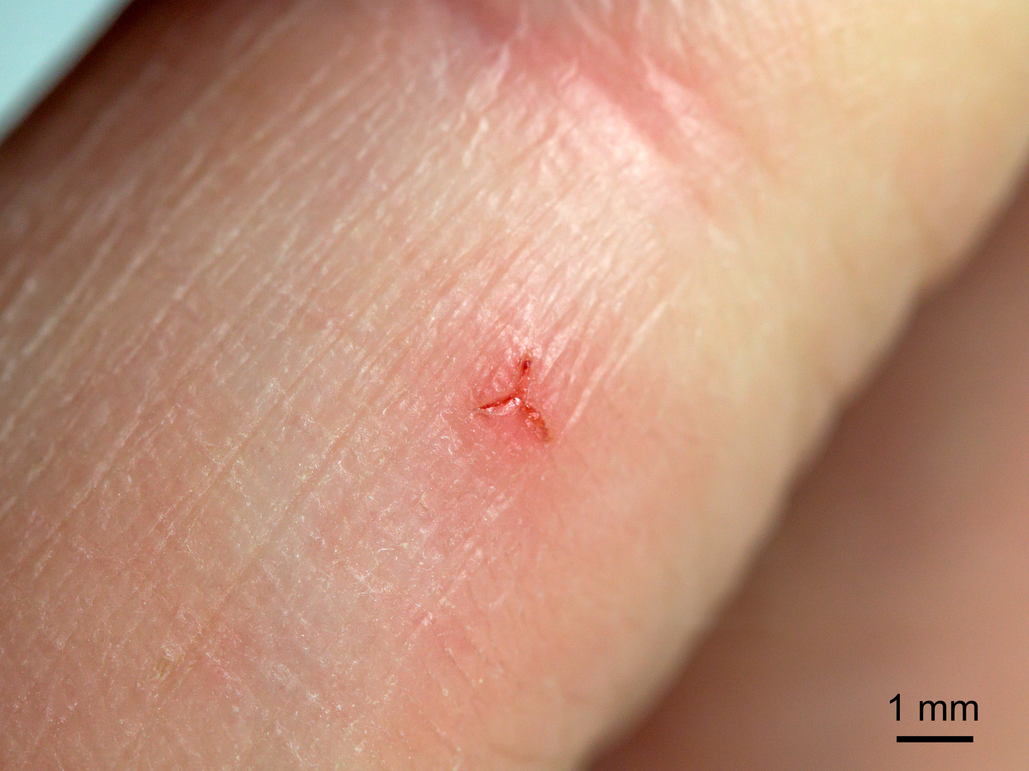 Human finger with typical shaped bite wound caused by a European Medicinal Leech, Hirudo medicinalis – some hours after bite.